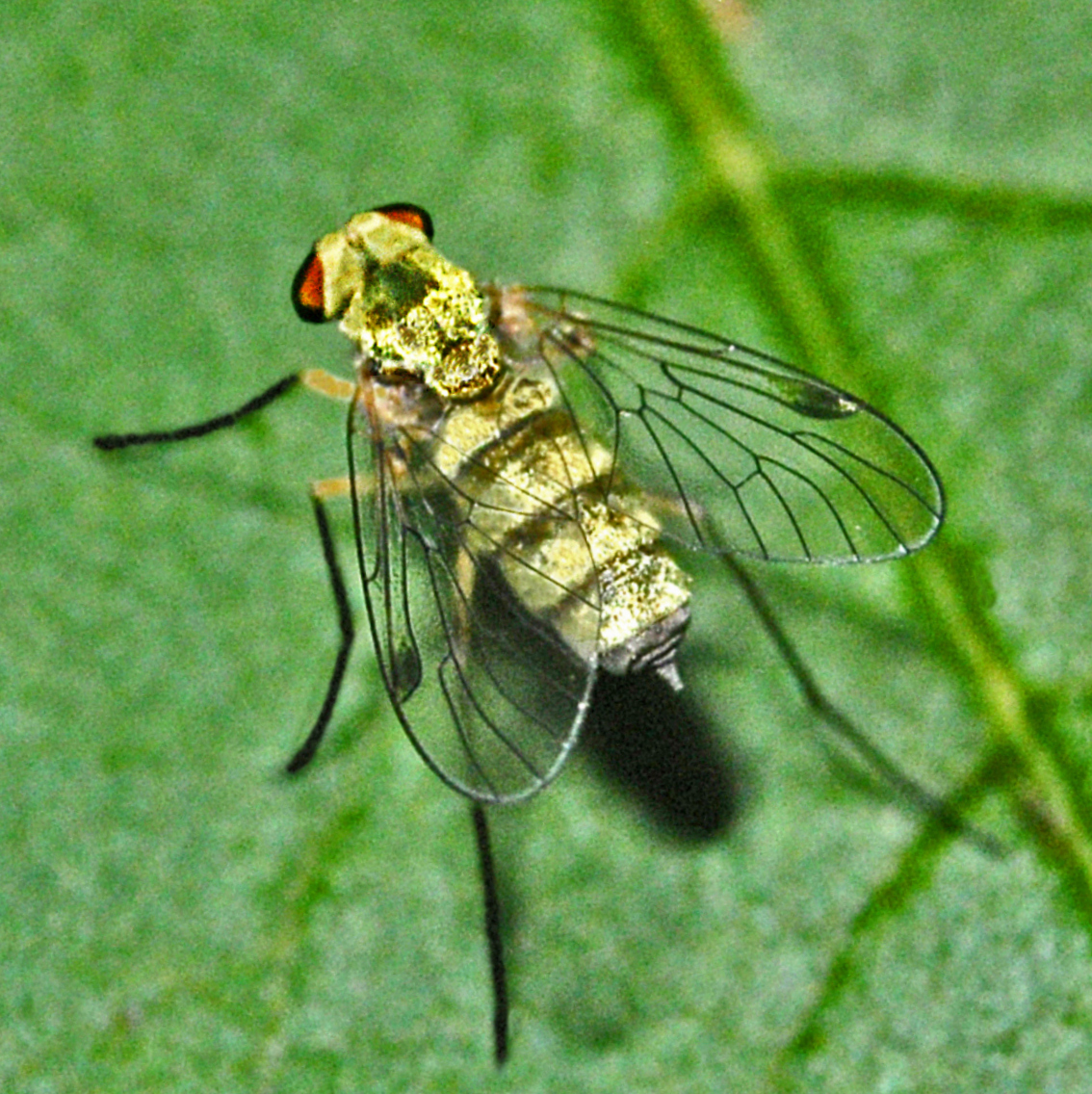 Chrysopilus asiliformis. Female. Piani di Praglia, Genova, Italy